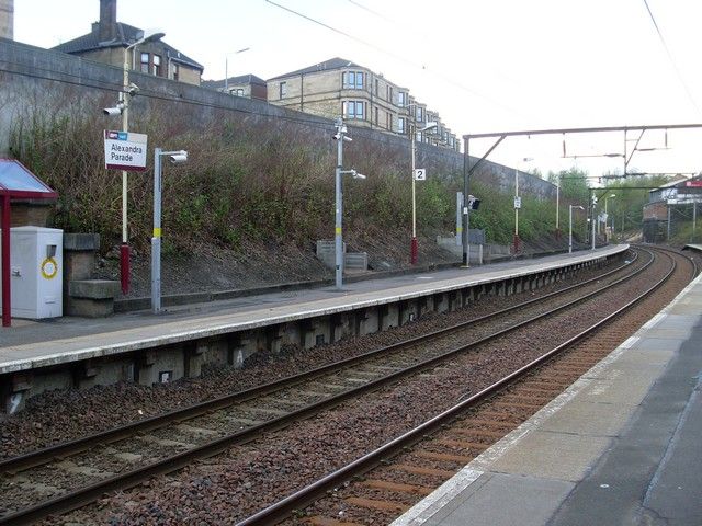 Alexandra Parade railway station Original description: Alexandra Parade railway station On the Springburn line. Served by a half-hourly service to the City Centre, and beyond to Clydebank and Milngavie.